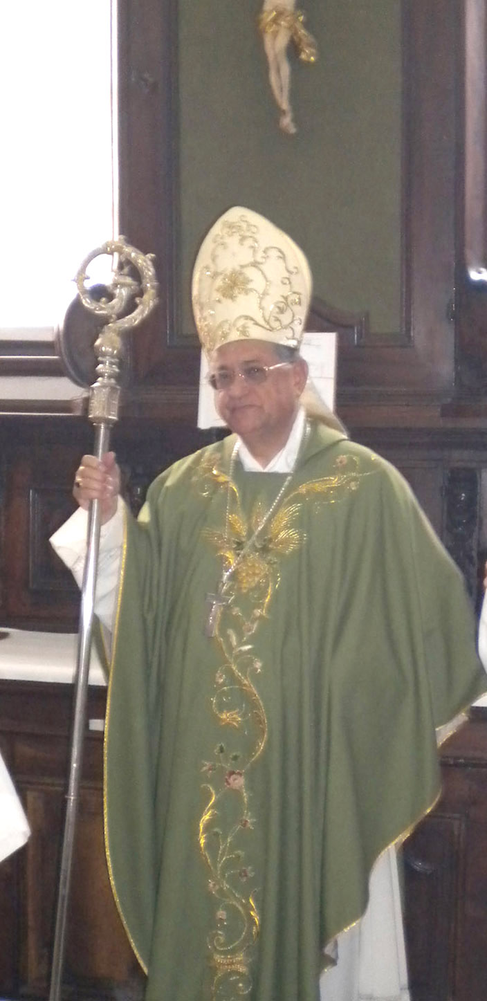 Latin Patriarch of Jerusalem, Fouad Twal.